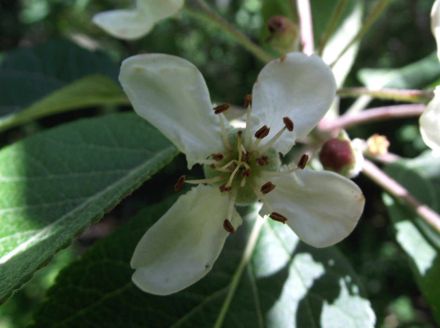 Malus fusca at the UC Botanical Garden, Berkeley, California, USA. Identified by sign.